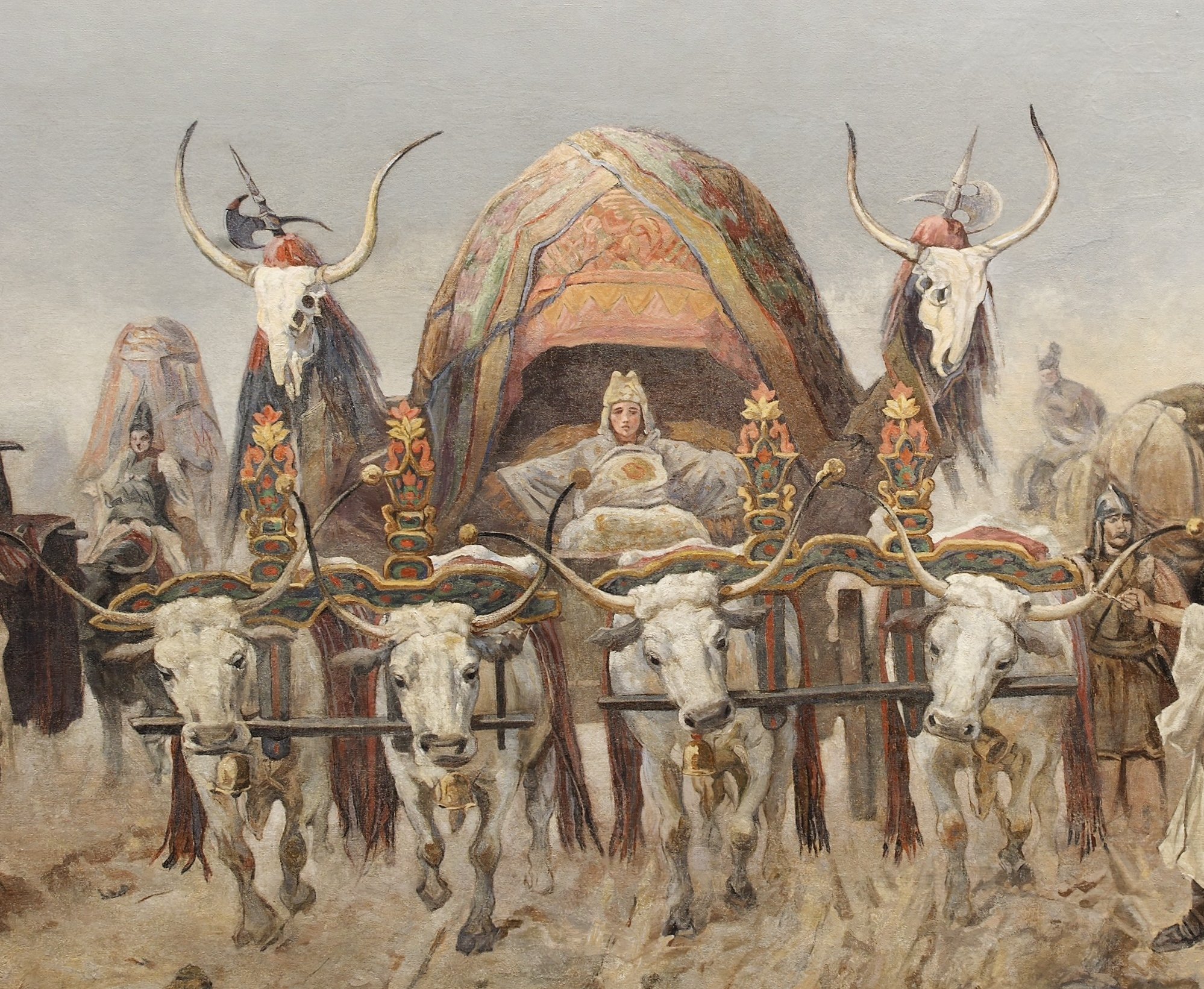 Árpád's wife on Feszty's panorama (Arrival of the Hungarians), oil on canvas